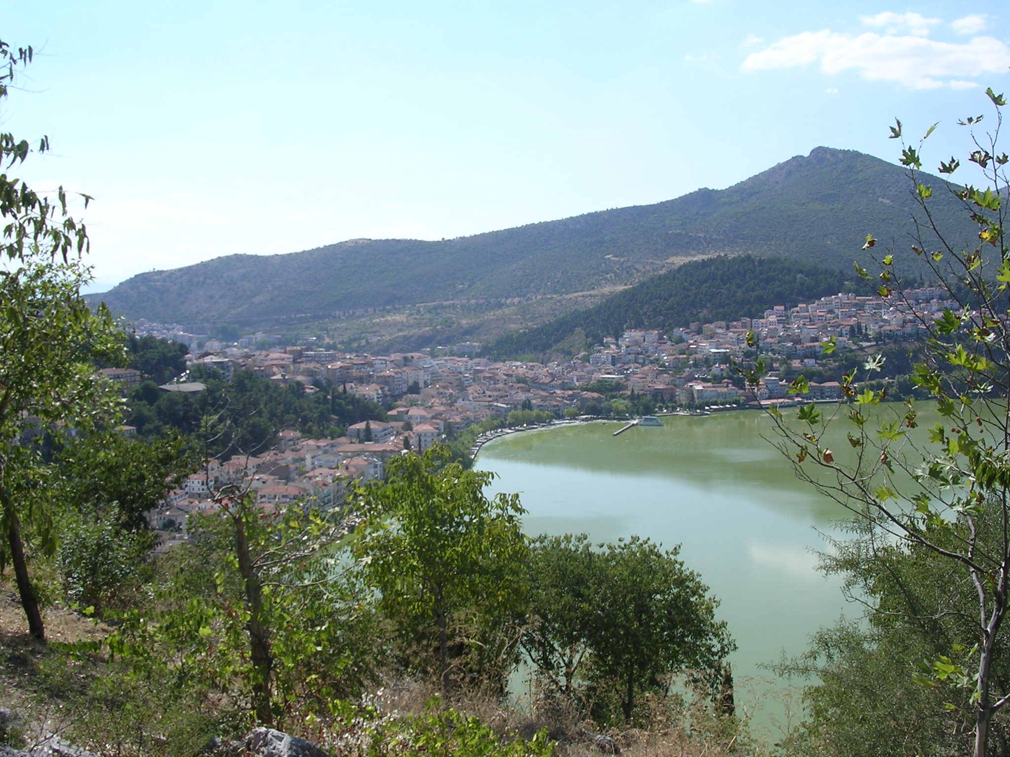 View of Kastoria